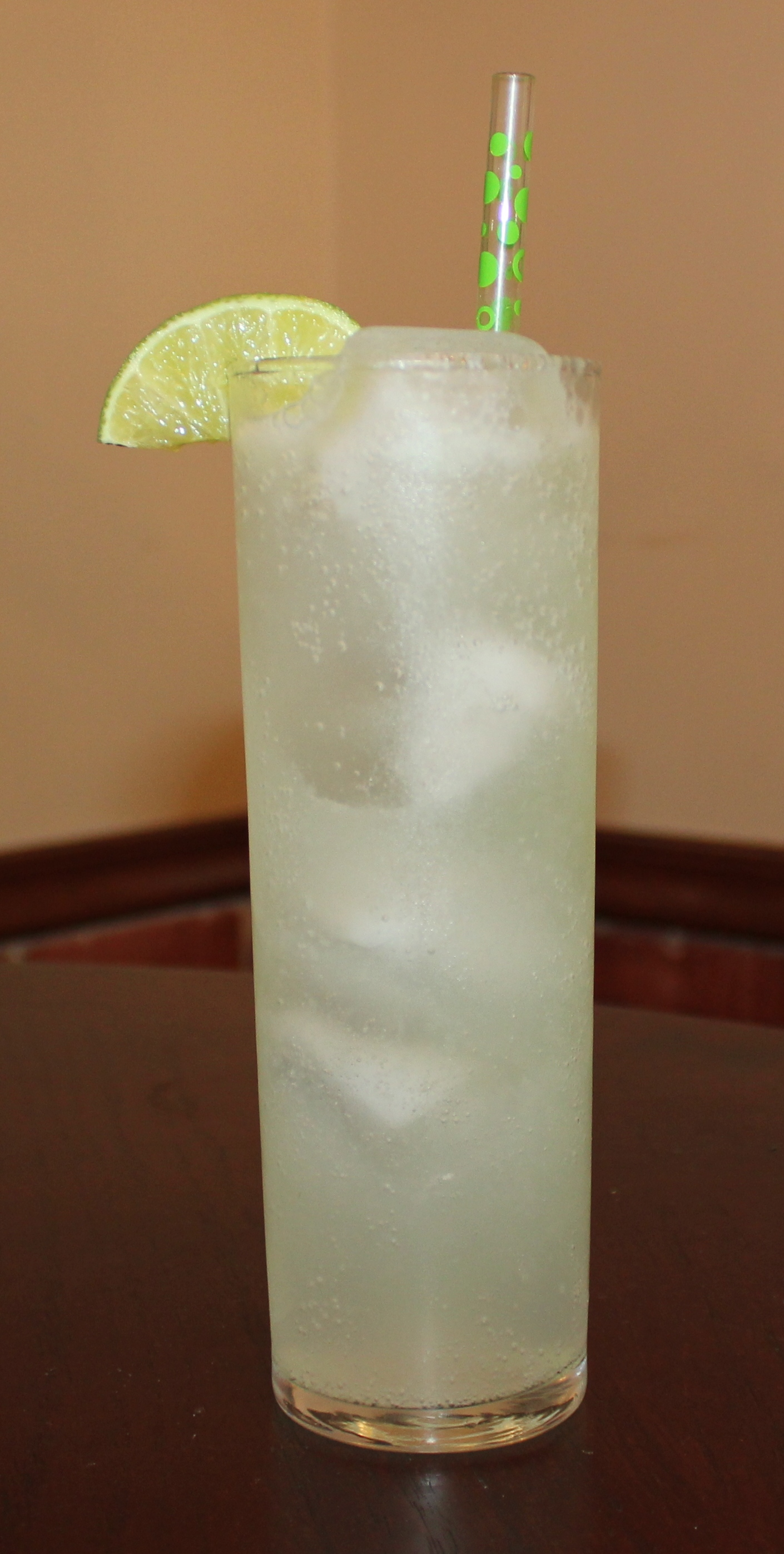 Gin Rickey recipe available at